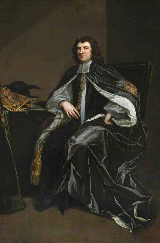 Portrait of Gilbert Burnet (1643-1715), Bishop of Salisbury